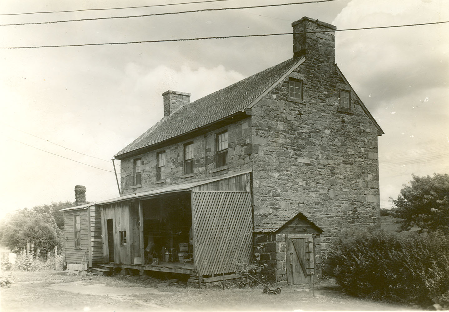 The Stone House, Prince William County, VA, as it appeared in the early twentieth century.